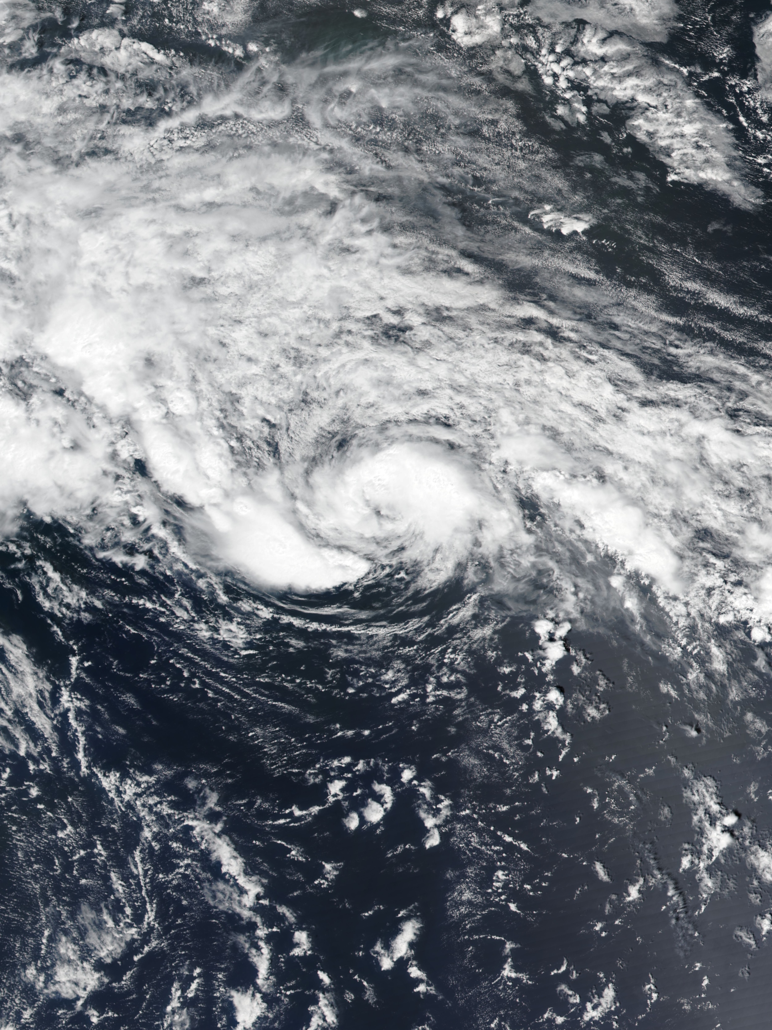 Tropical Storm Arlene (01L) located to the west of the Azores on April 20, 2017.